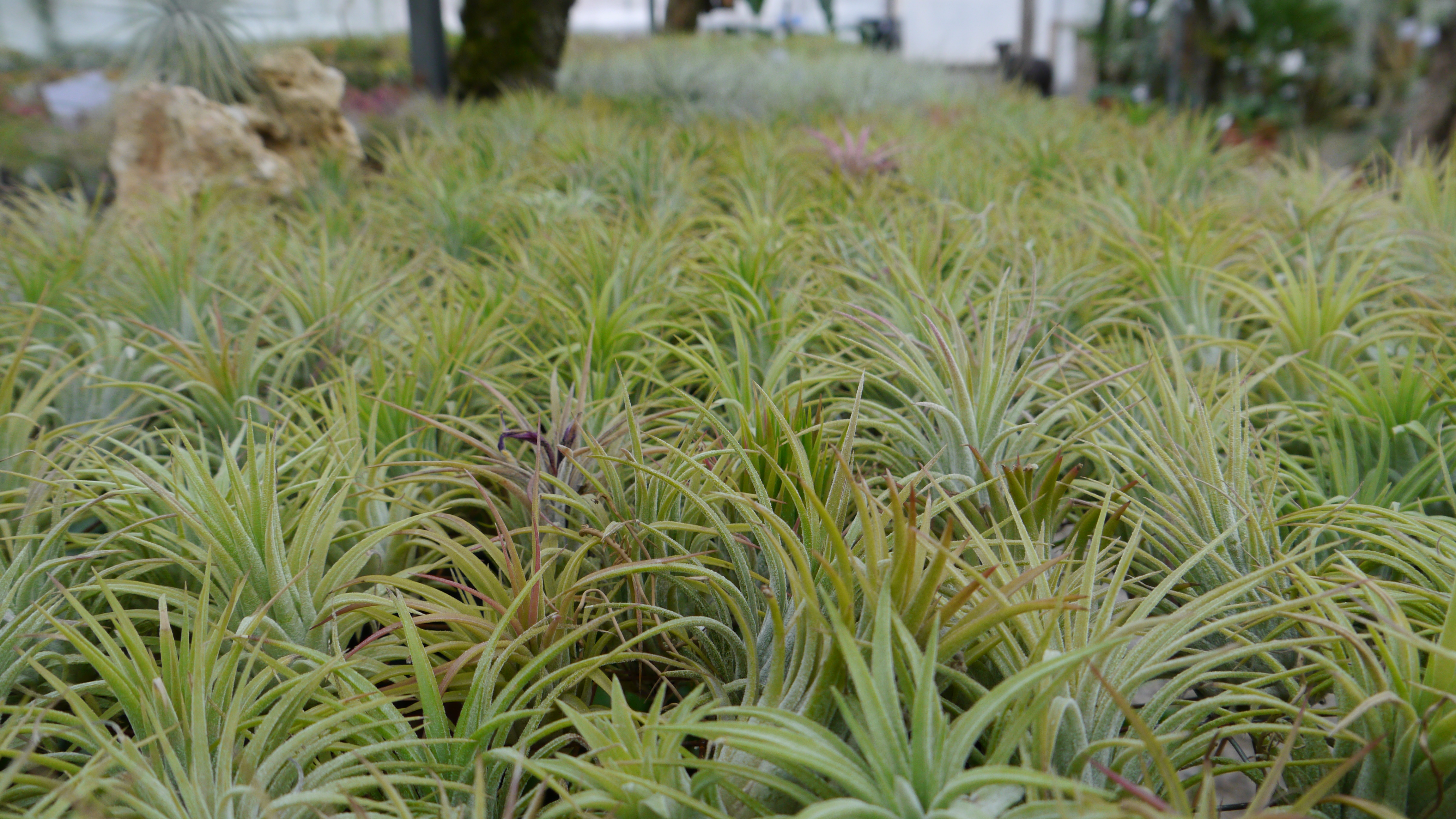 A large number of Tillandsia 'Rubra' air plants in a UK air plant nursery